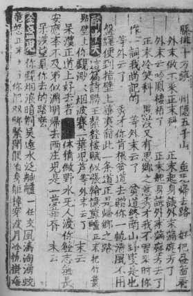 A Yuan dynasty (1206-1368) woodblock edition of a zaju play entitled Zhuye Zhou. Source: [1]